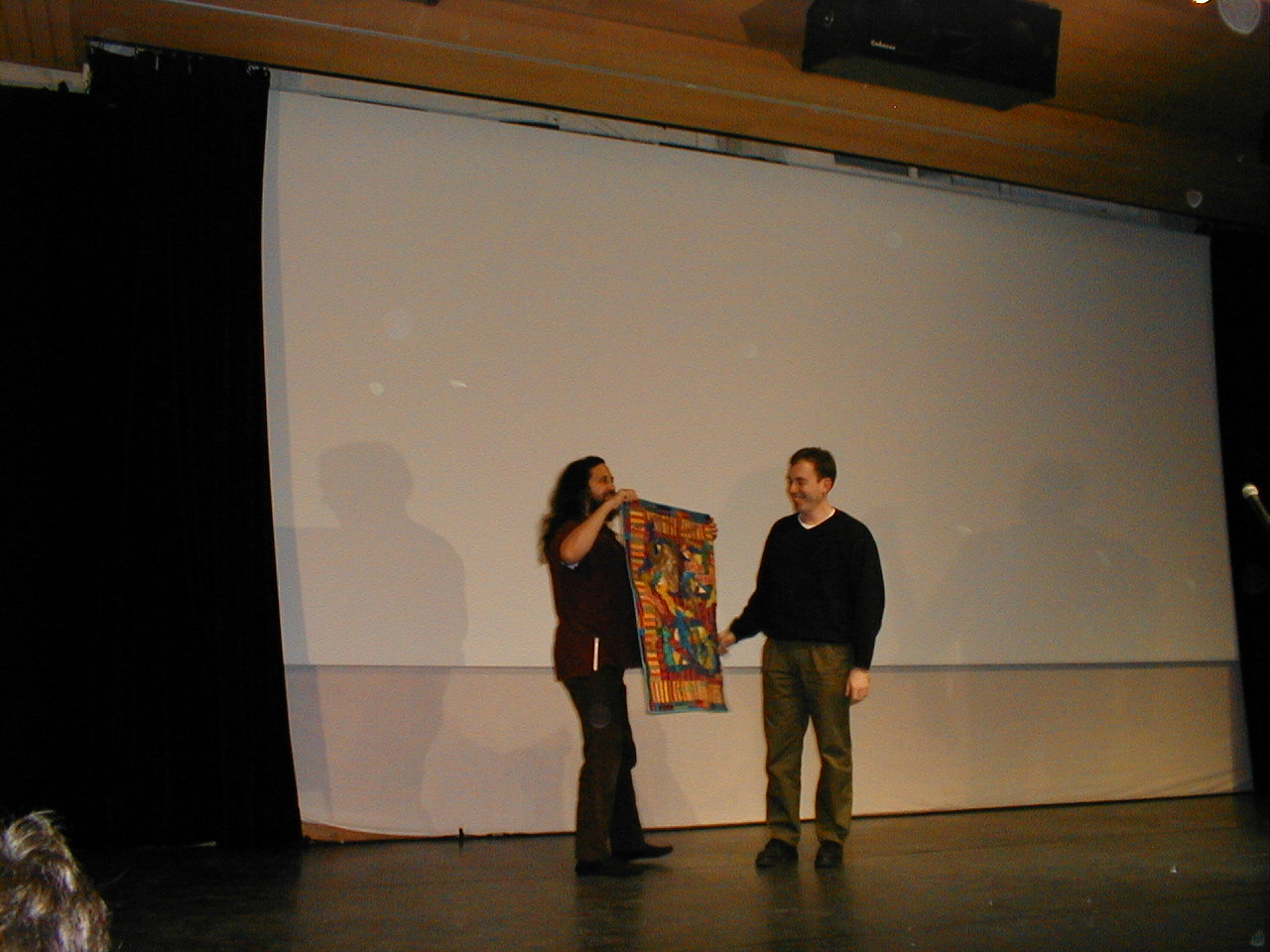 Brian Paul receiving award from Richard Stallman